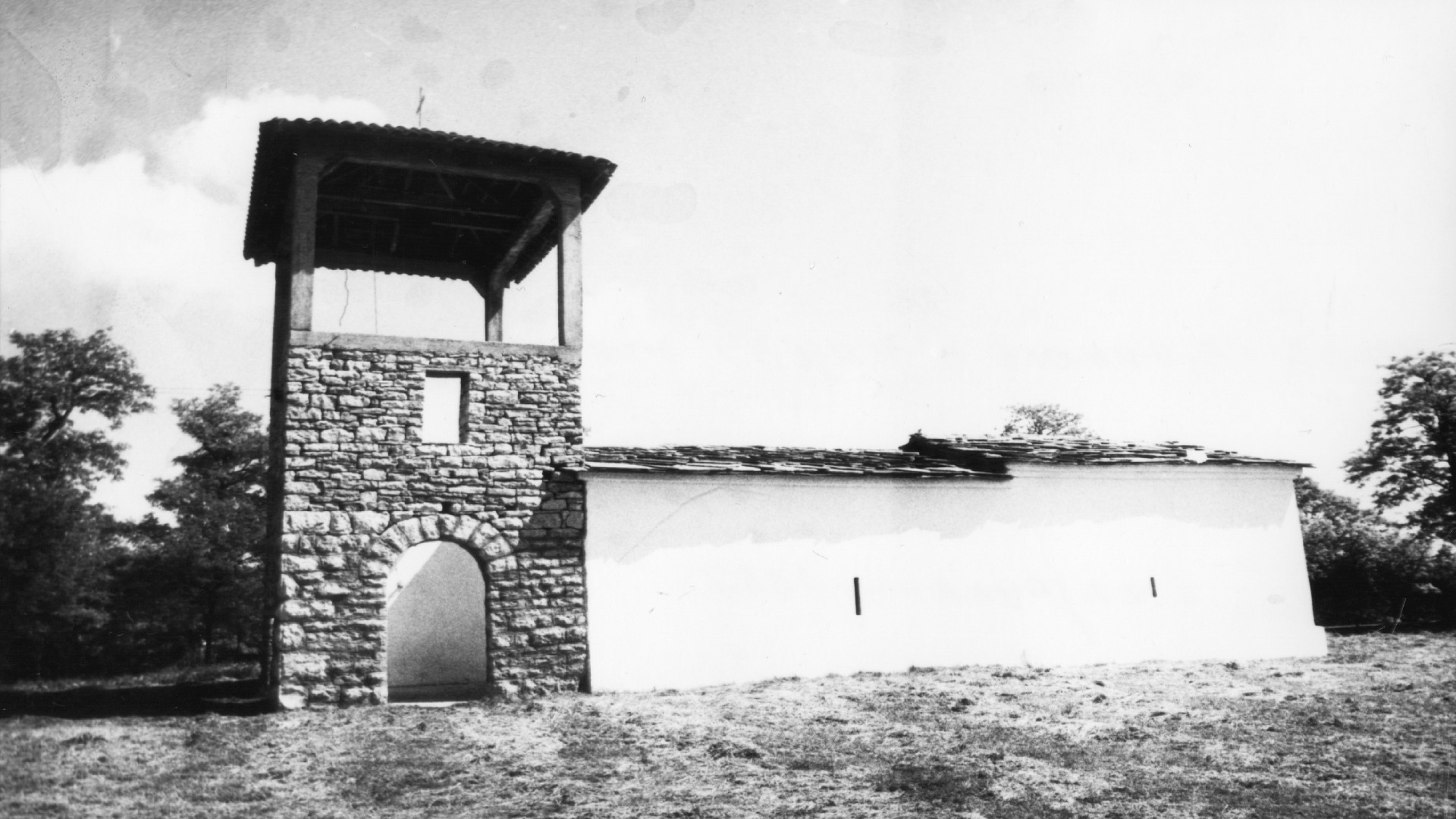 Church of Saint Nicholas in Kijevo, southern look before 1999. year